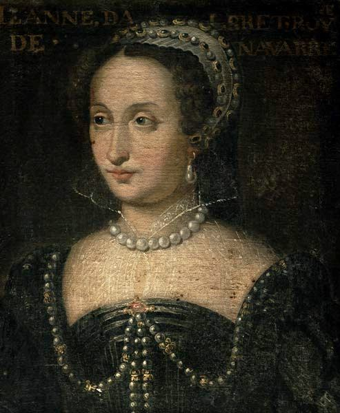 Portrait of Jeanne d'Albret (1528-1572)